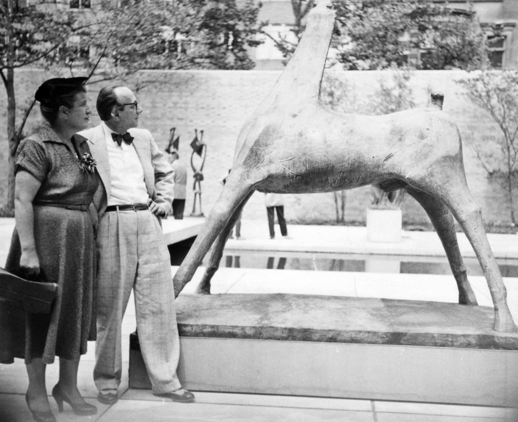 Edward Kozak & Mrs. Kozak at the Museum of Modern Art in New York City